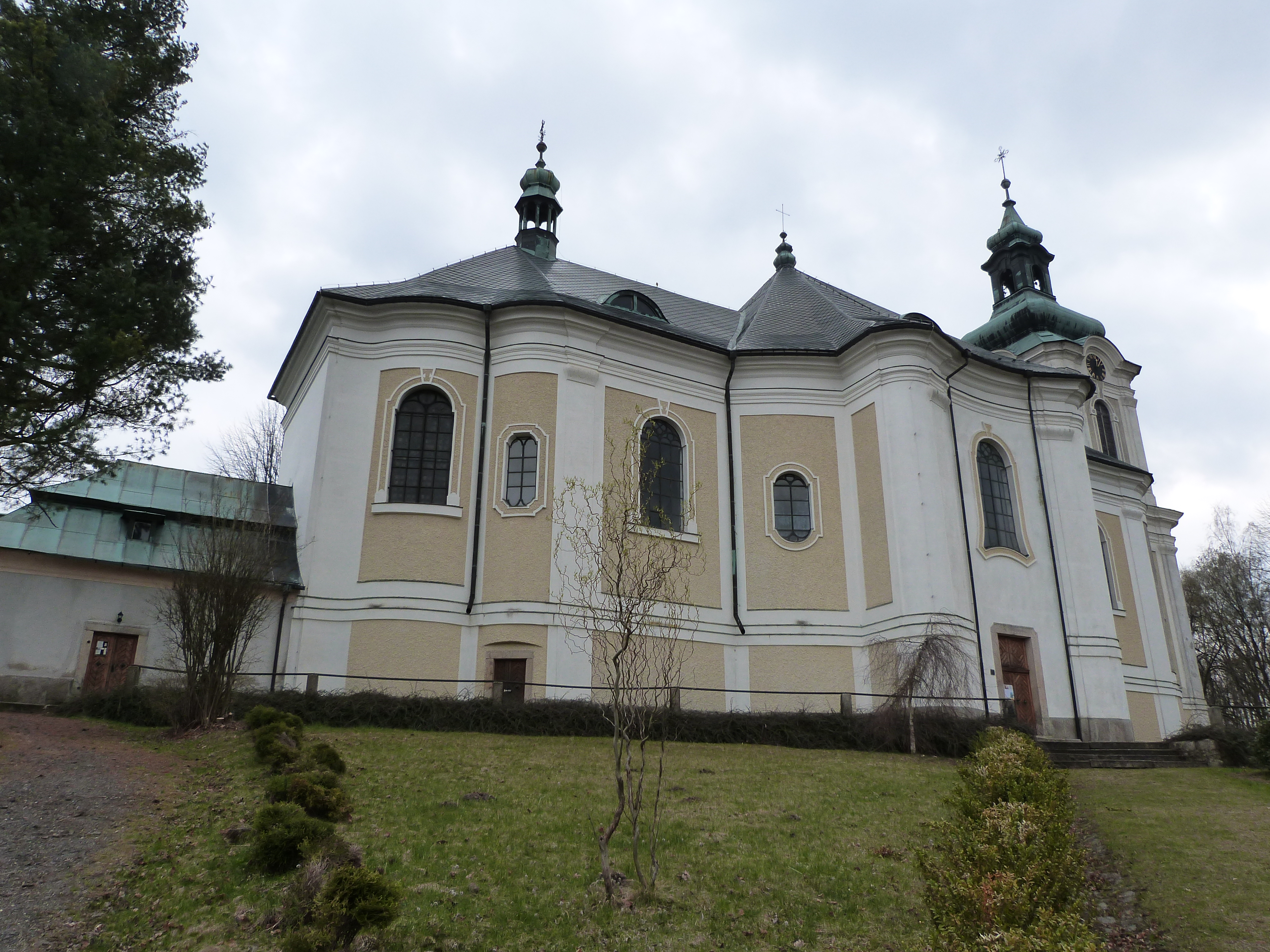 Church of Saint Michael the Archangel in Smržovka